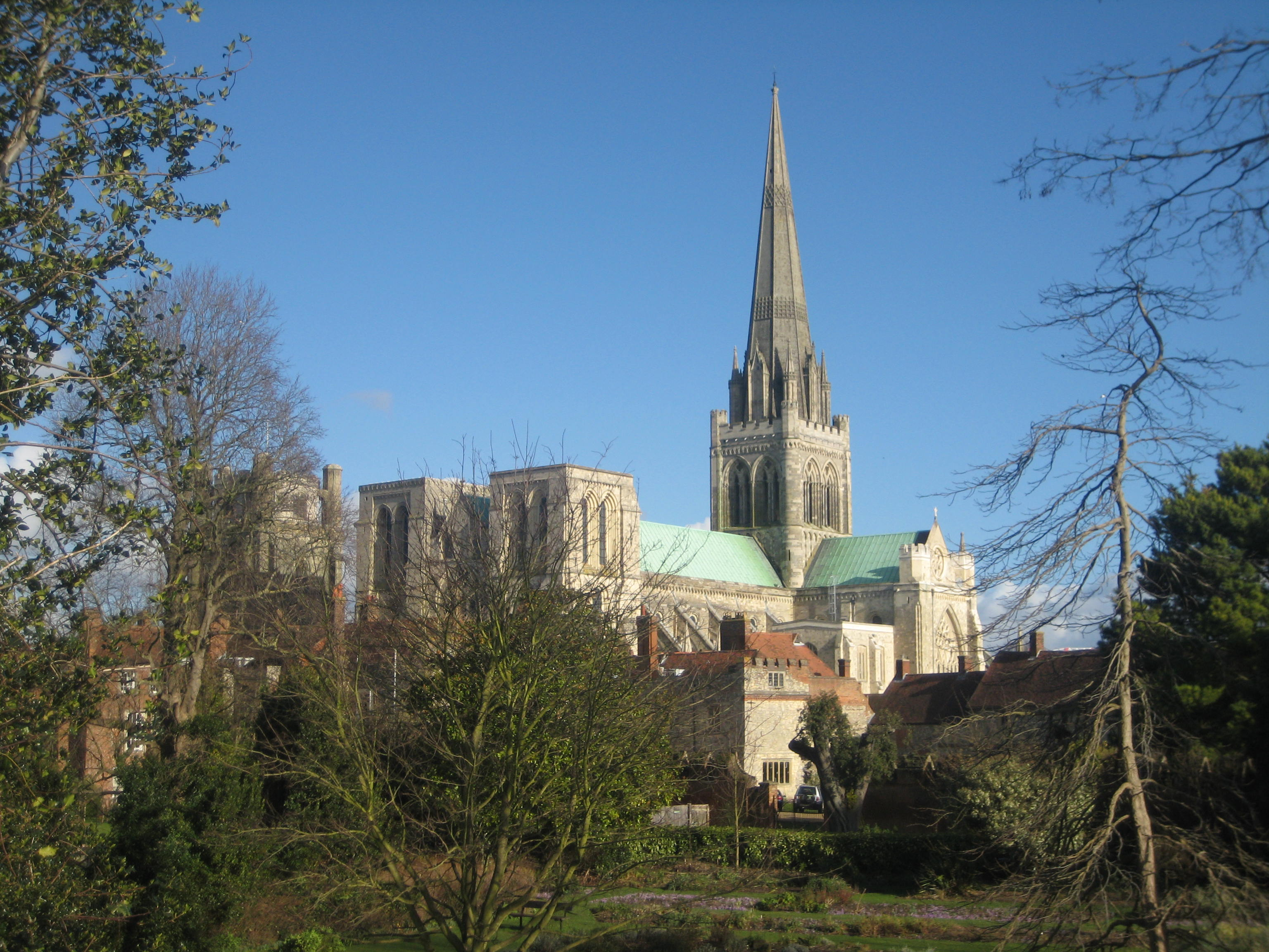 Photo by Oxenhillshaw 02 Apr 2008 (UTC)